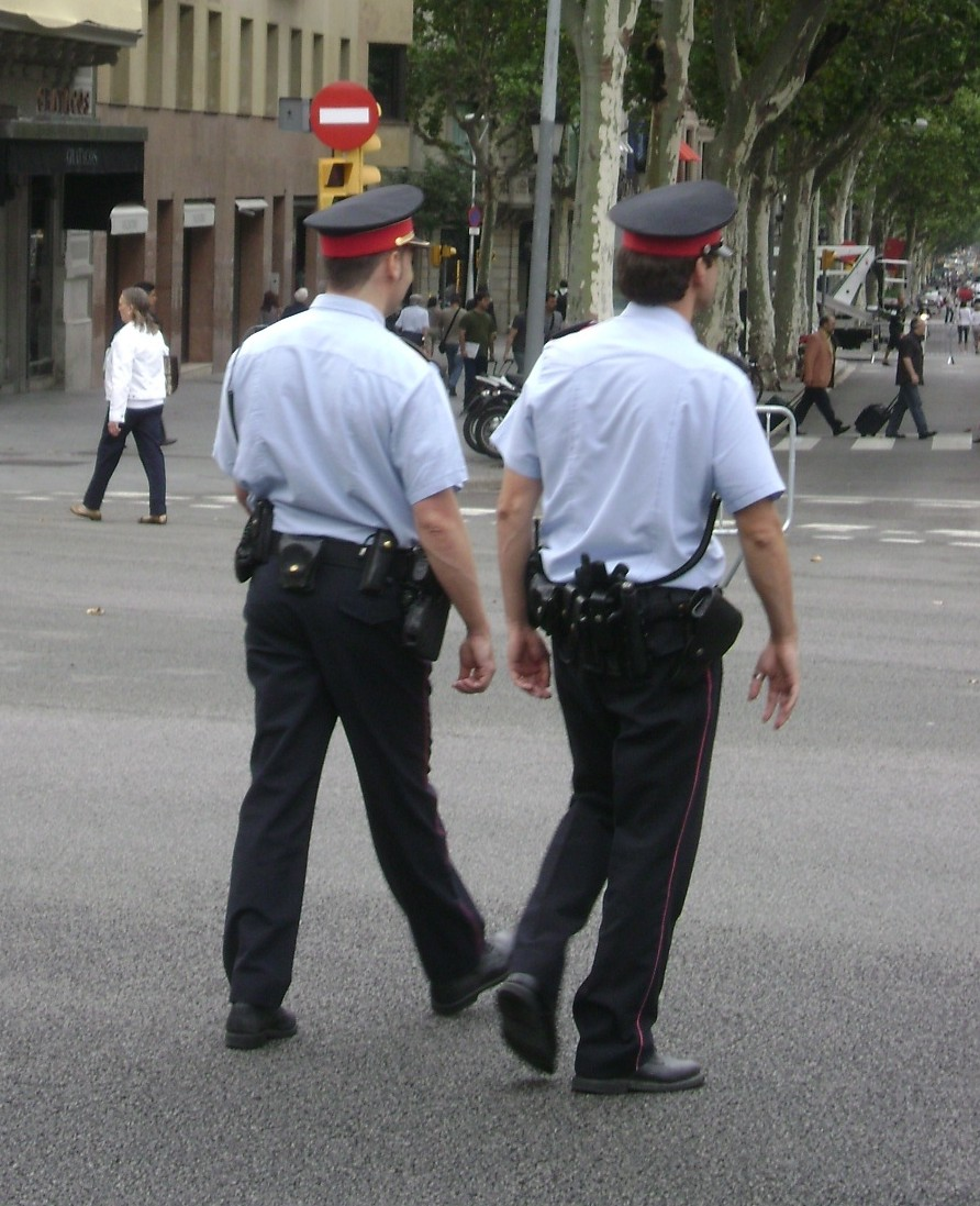 Foot patrol of Mossos d'Esquadra police.